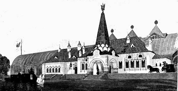 Emperor railway station in Pushkin town Licensing This work is in the public domain in Russia according to article 1256 of Book IV of the Civil Code of the Russian Federation No. 230-FZ of December 18, 2006. It was published on territory of the Russian Empire (Russian Republic) except for territories of the Grand Duchy of Finland and Congress Poland before 7 November 1917 and wasn't re-published for 30 days following initial publications on the territory of Soviet Russia or any other states. The Russian Federation (early RSFSR, Soviet Russia) is the historical heir but not legal successor of the Russian Empire. If applying, PD-old-100 should be used instead of this tag. This work is in the public domain in the United States because it was published (or registered with the U.S. Copyright Office) before January 1, 1923.